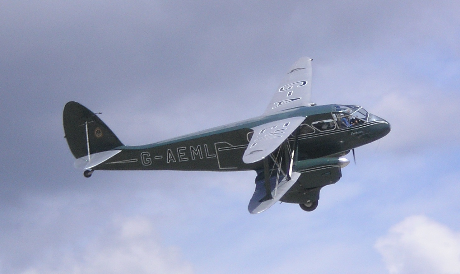 De Havilland DH.89 Dragon Rapide.